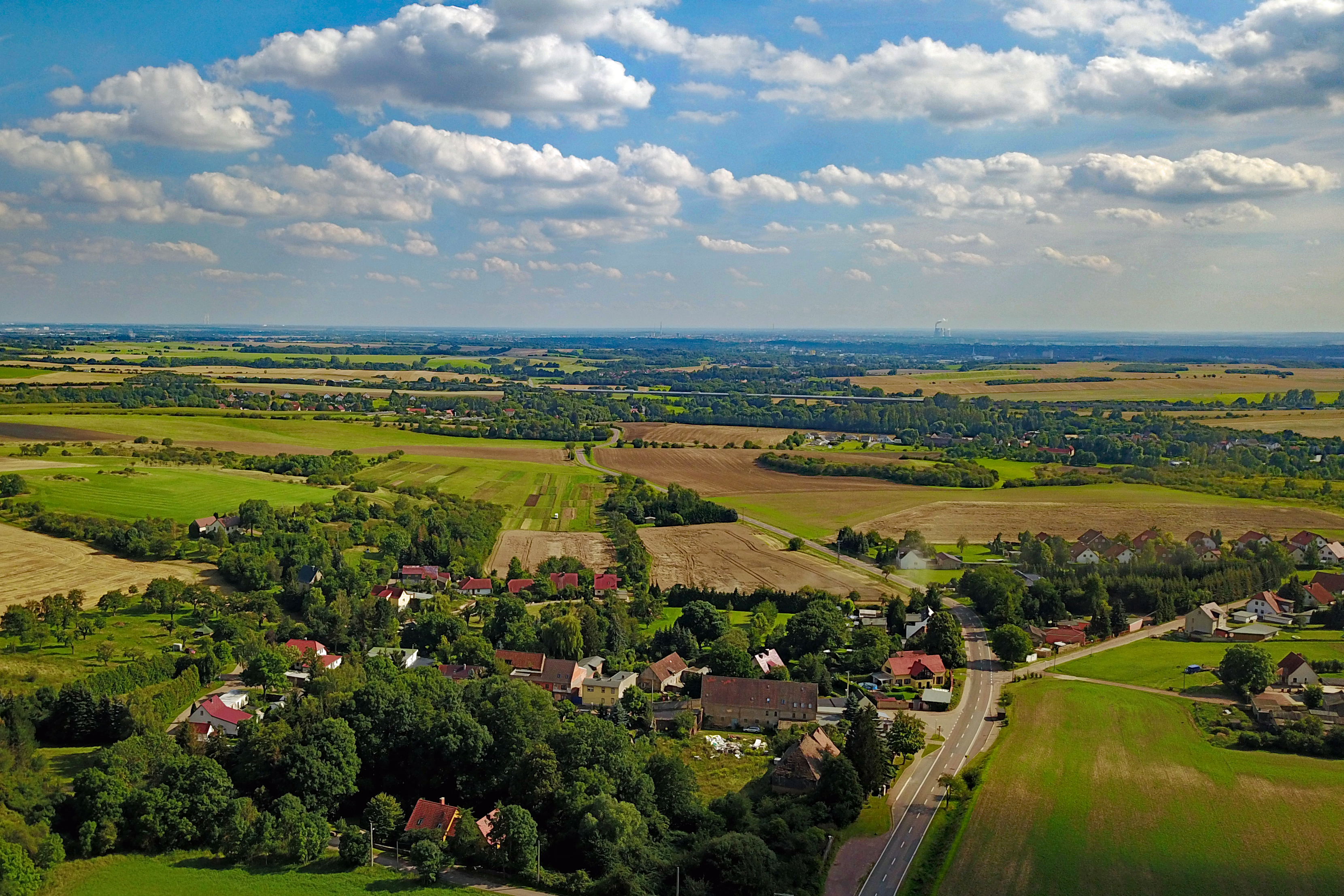 Frößnitz (Petersberg, Saalekreis, Sachsen-Anhalt) aus der Luft (Blick Richtung Süden; im Hintergrund die A14)